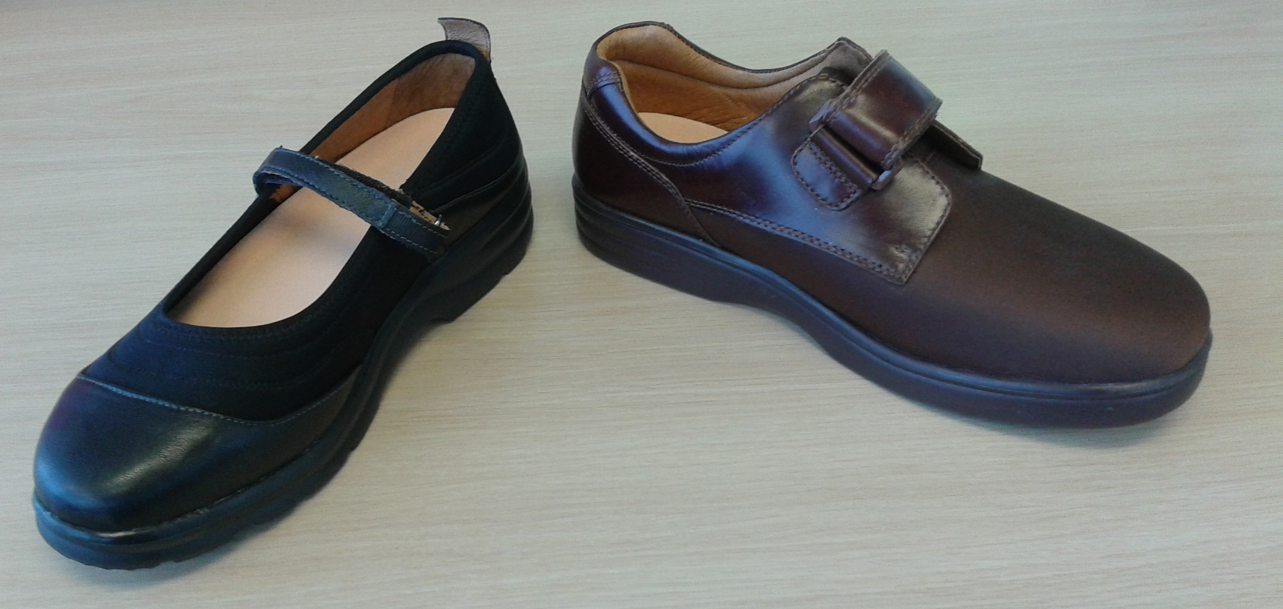 Specialized footwear for people with diabetes.